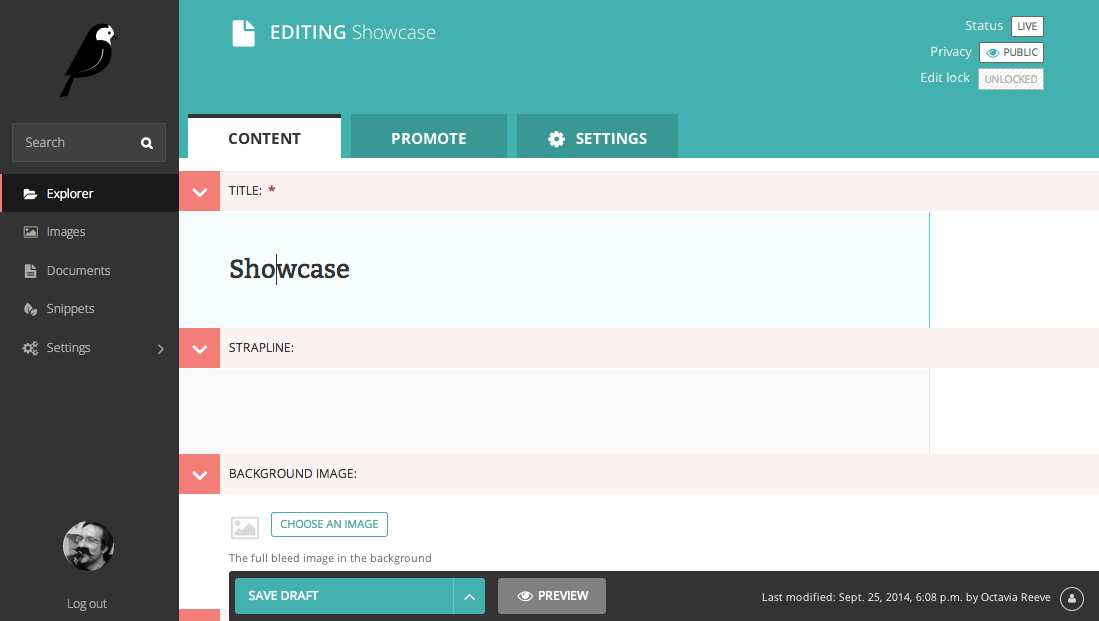 Screenshot of the open source Wagtail CMS admin interface.